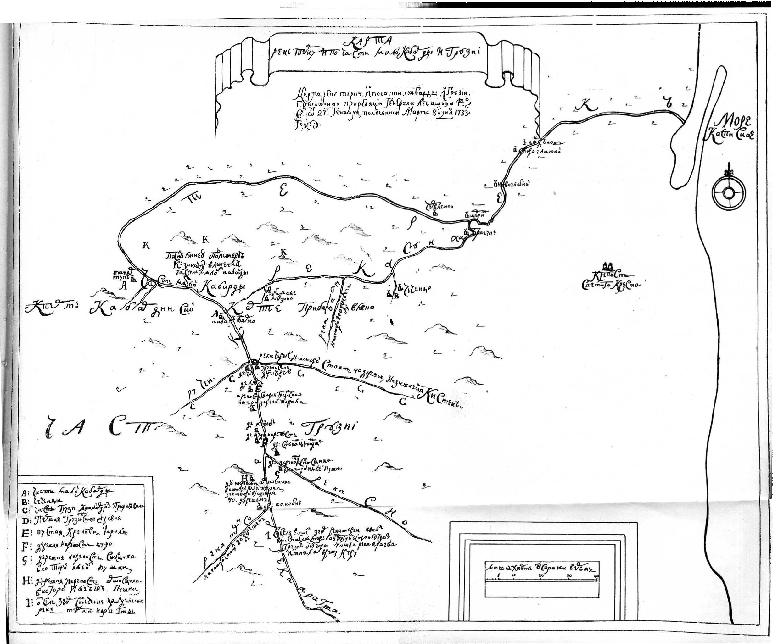 River Terek map